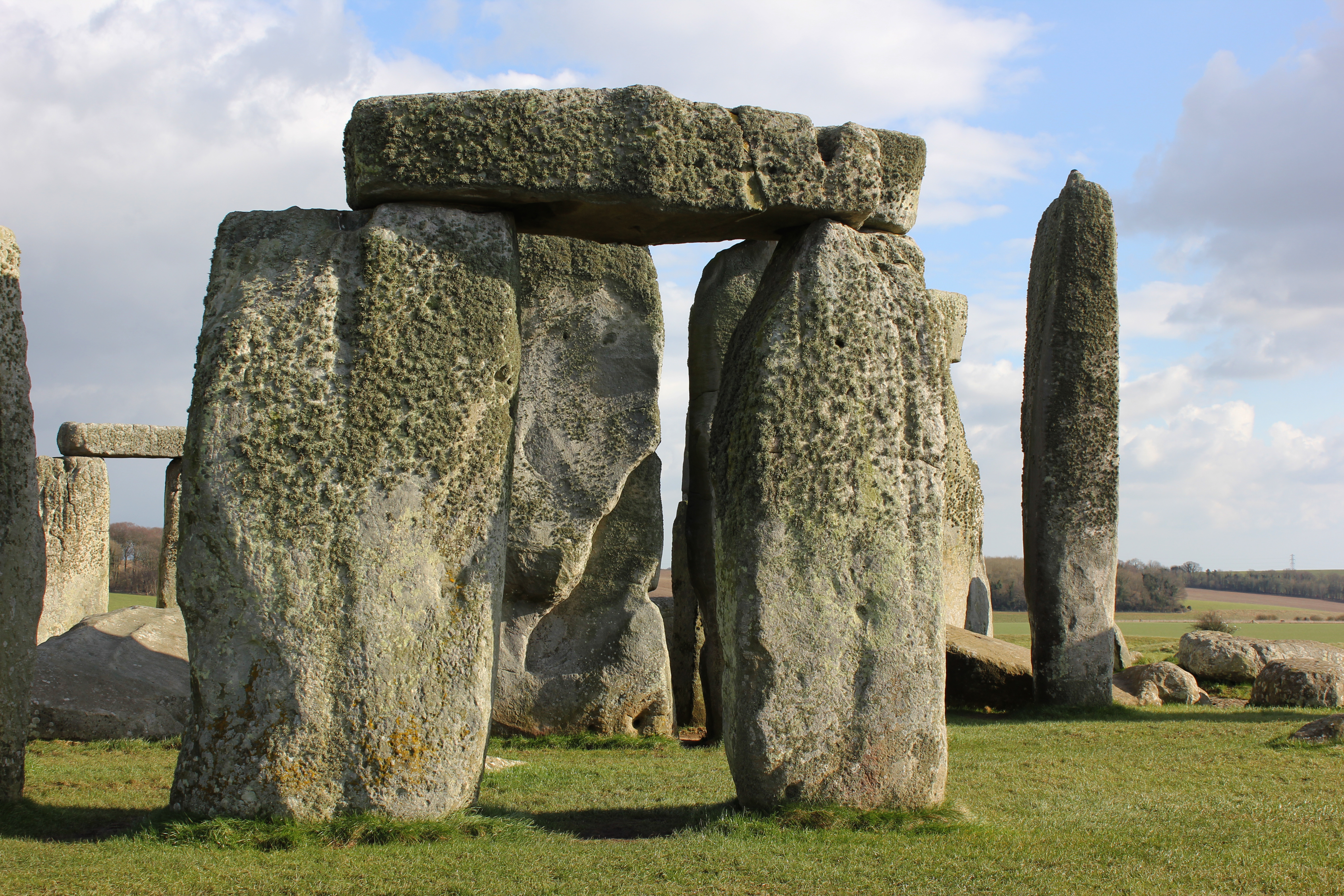 Stonehenge is a prehistoric monument in Wiltshire, England, 2 miles (3 km) west of Amesbury and 8 miles (13 km) north of Salisbury. Stonehenge's ring of standing stones are set within earthworks in the middle of the most dense complex of Neolithic and Bronze Age monuments in England, including several hundred burial mounds.